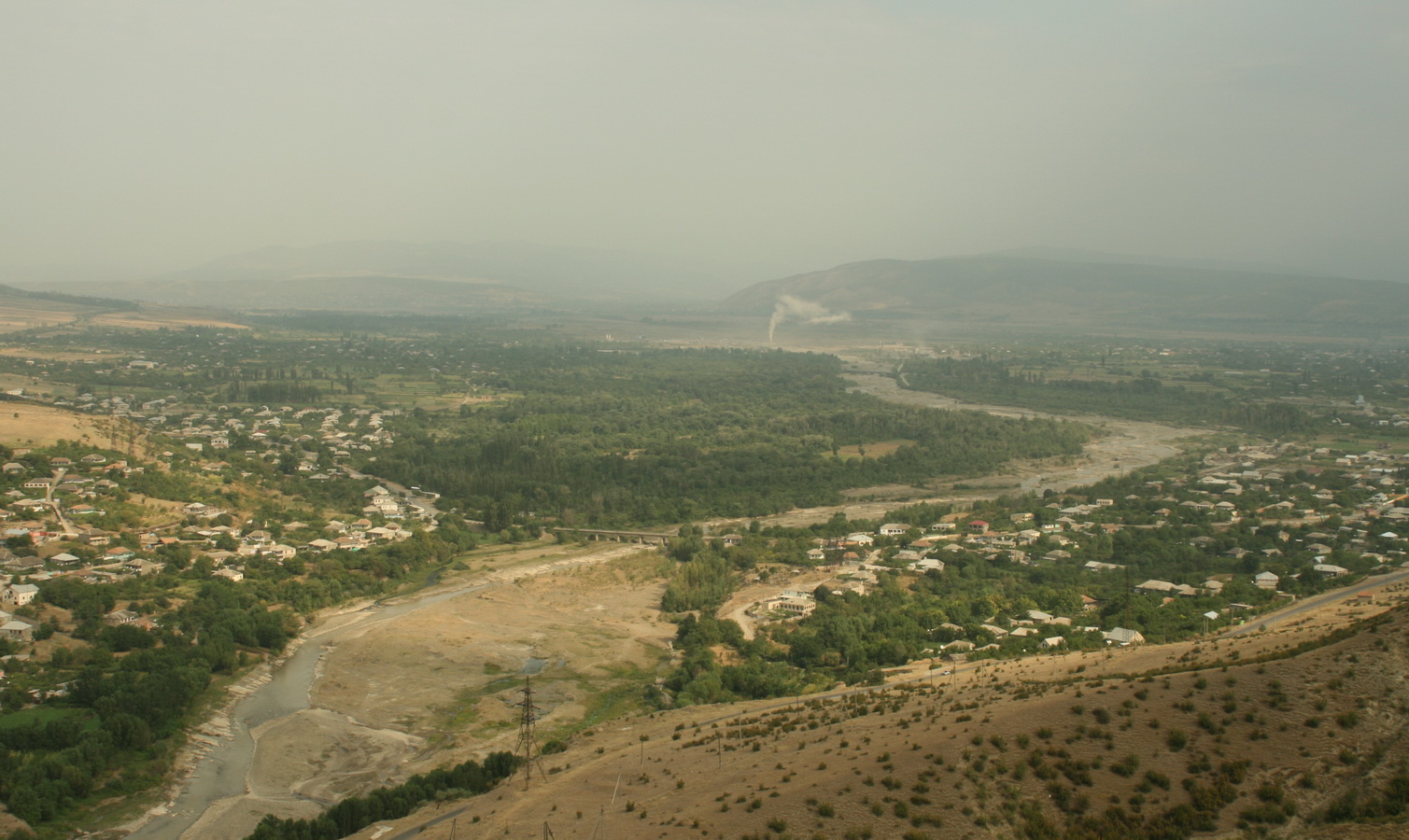 The Ksani valley as seen from Ksani fortress